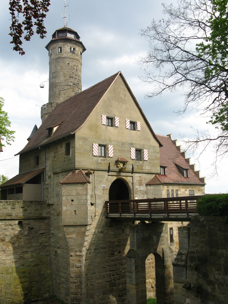 Entrance to the Altenburg.